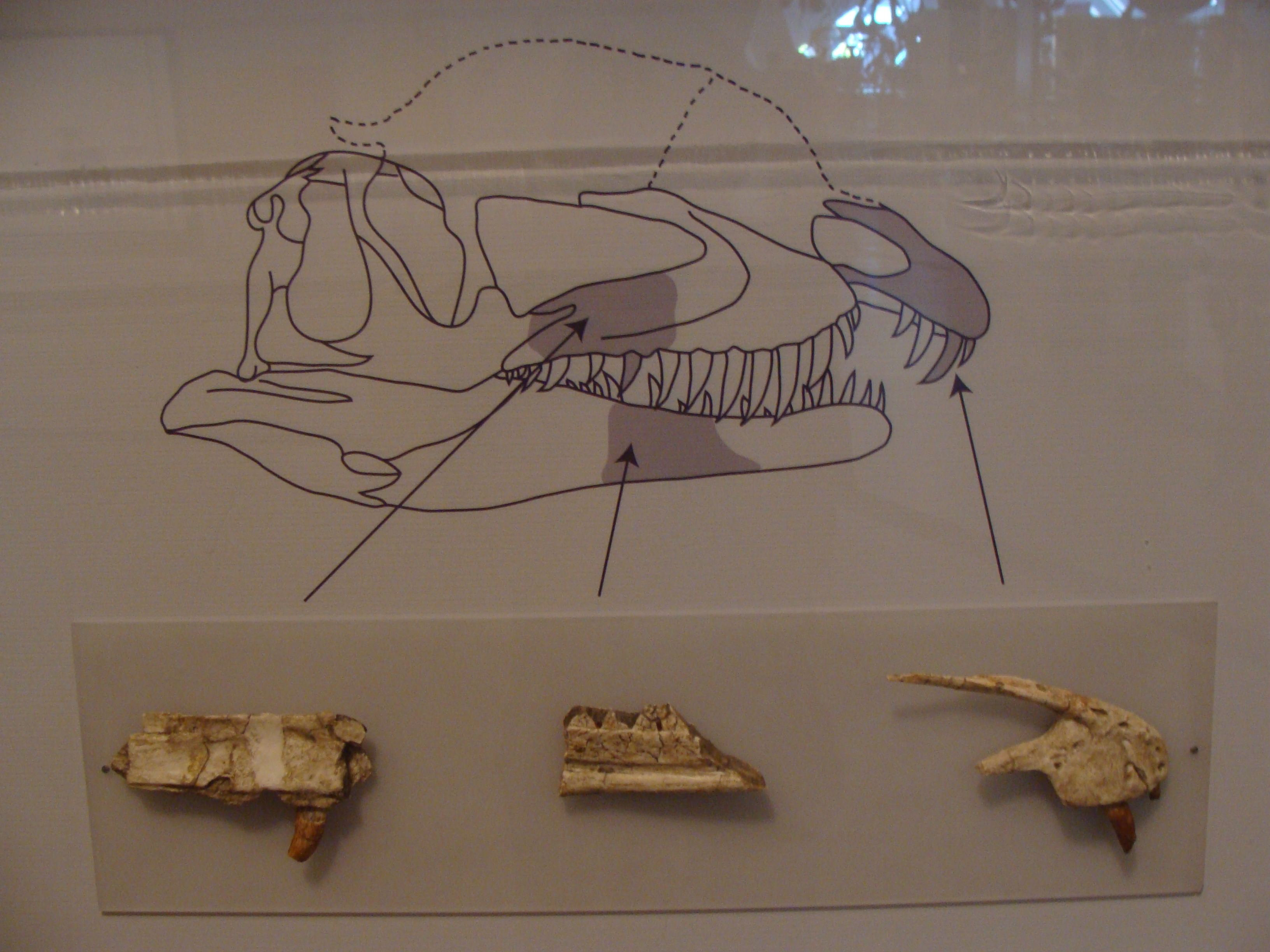 Dracovenator on display at the Royal Ontario Museum.